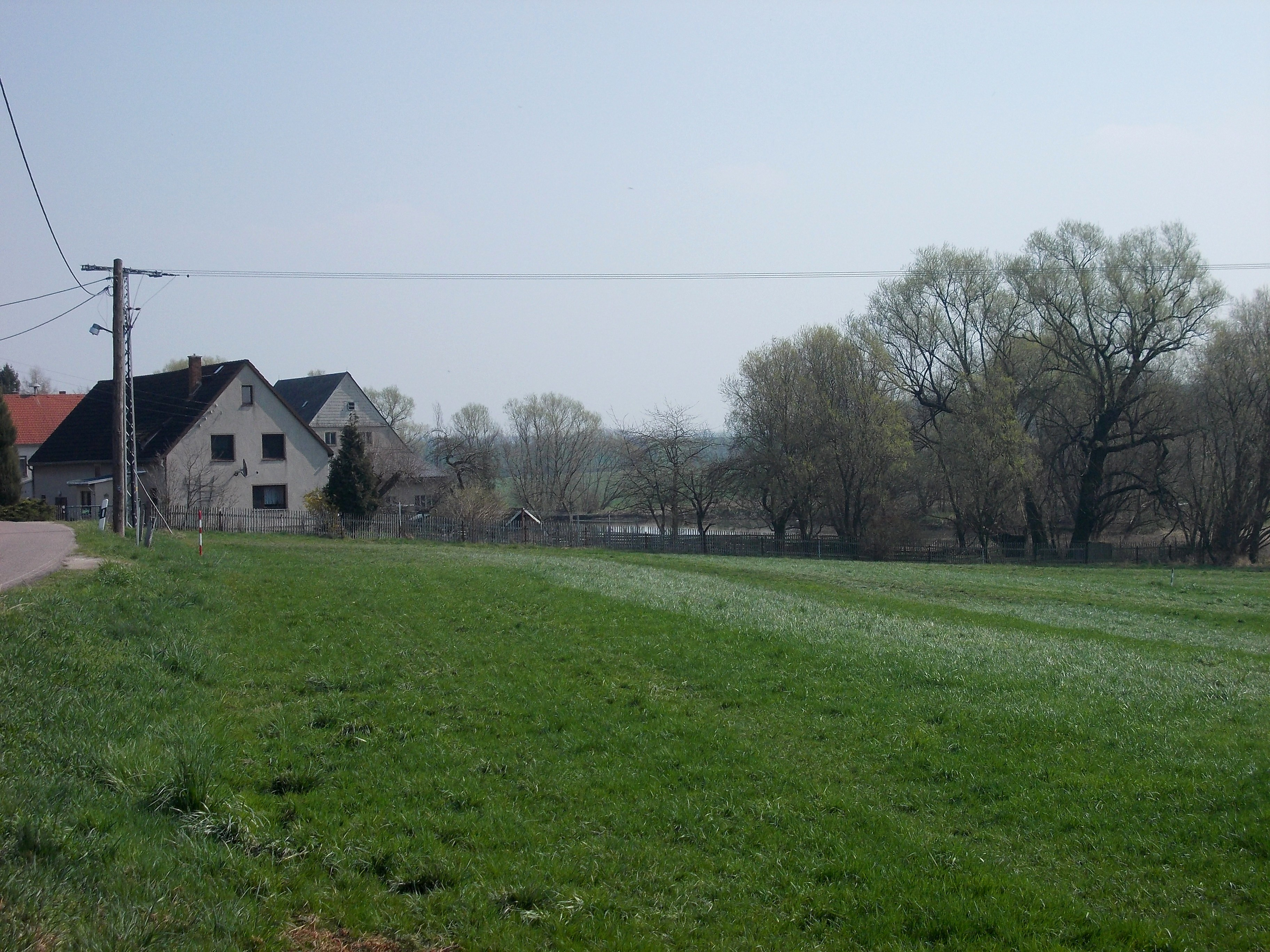 Houses of the central part of Breitenbach (Schönberg, Zwickau district, Saxony) with pond